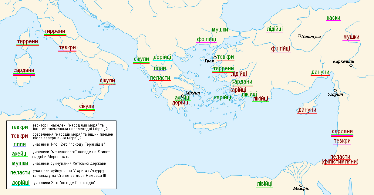 Map of Sea Peoples' migrations (ukrainian)